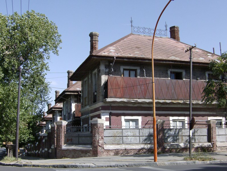 New Liverpool, barrio inglés de Bahía Blanca, Argentina